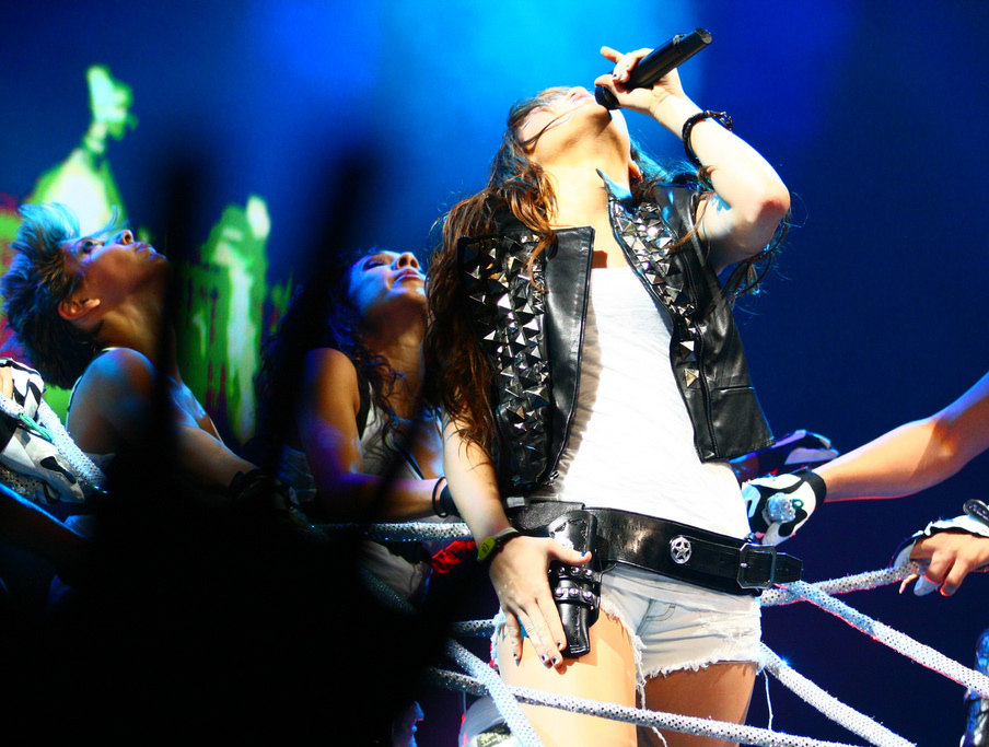 Miley Cyrus during the wonder world Concert in Detroit, Michigan.